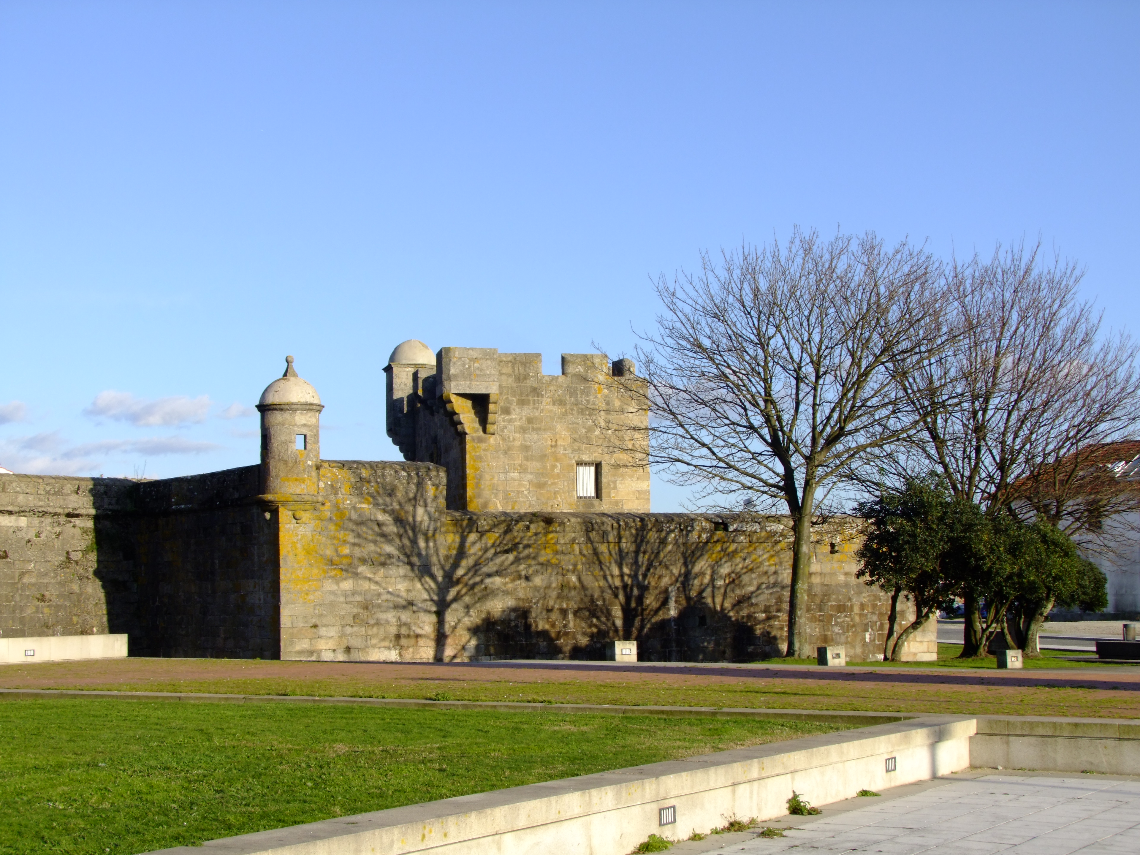 Roqueta Tower at Santiago da Barra Fort, in Viana do Castelo, Portugal